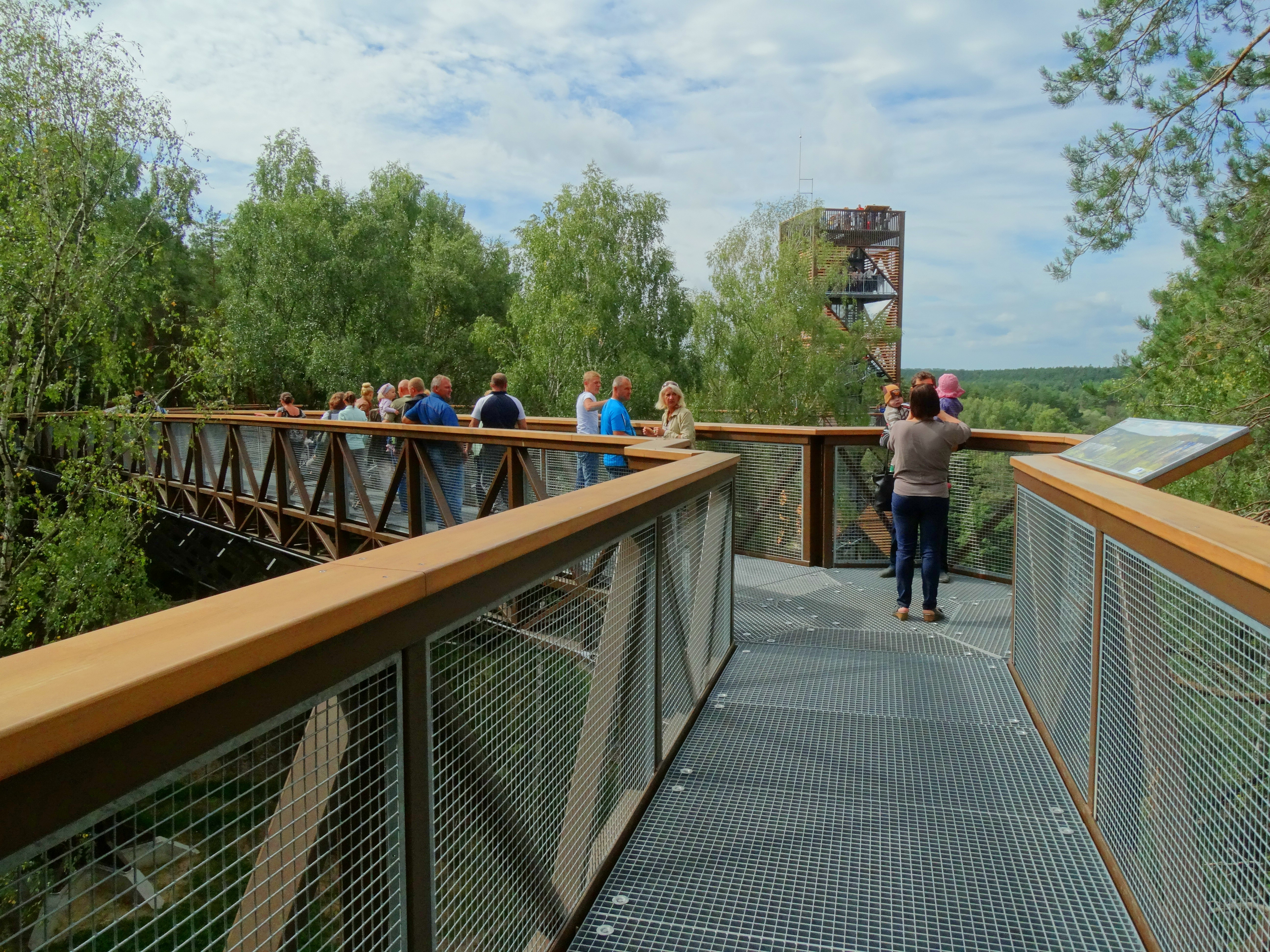 Canopy walkway, Anykščiai district, Lithuania